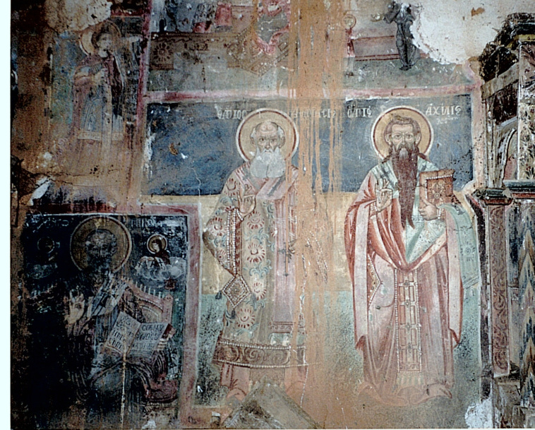 Frescoes in Svet Nikola Stari, Gabresh